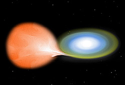 Artist's conception of a binary system consisting of a white dwarf star (right) accreting hydrogen from a larger companion. This may give a nova.